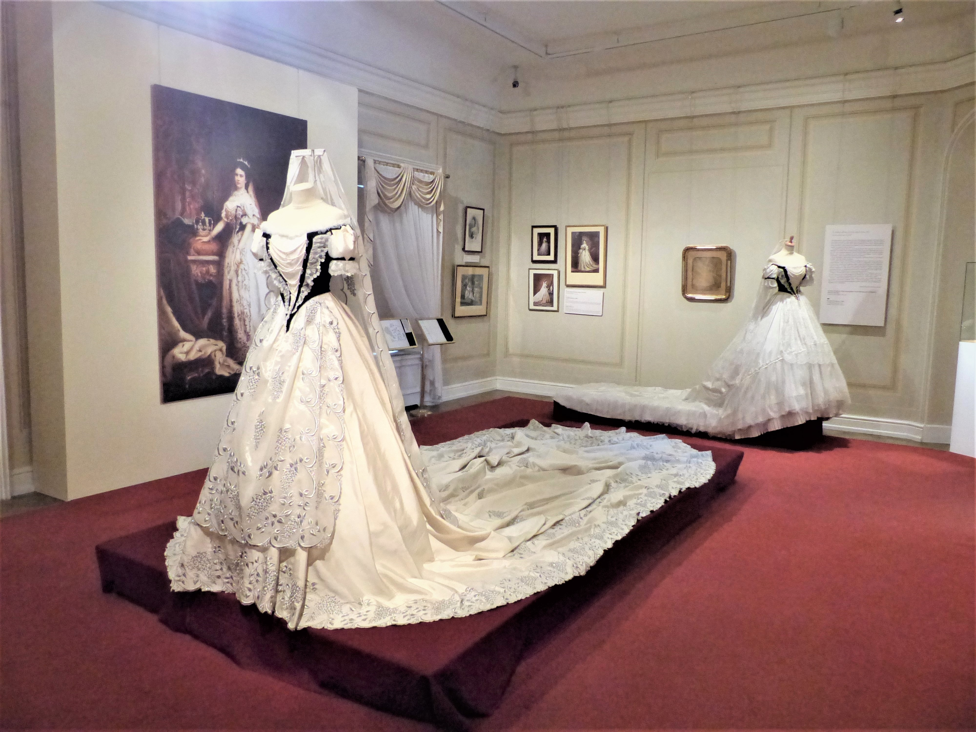 Díszmagyar Coronation Dress of Queen Elisabeth of Hungary. Reconstruction, made by Czédly Mónika, 2017. Silver brocade, diamonds and organ.